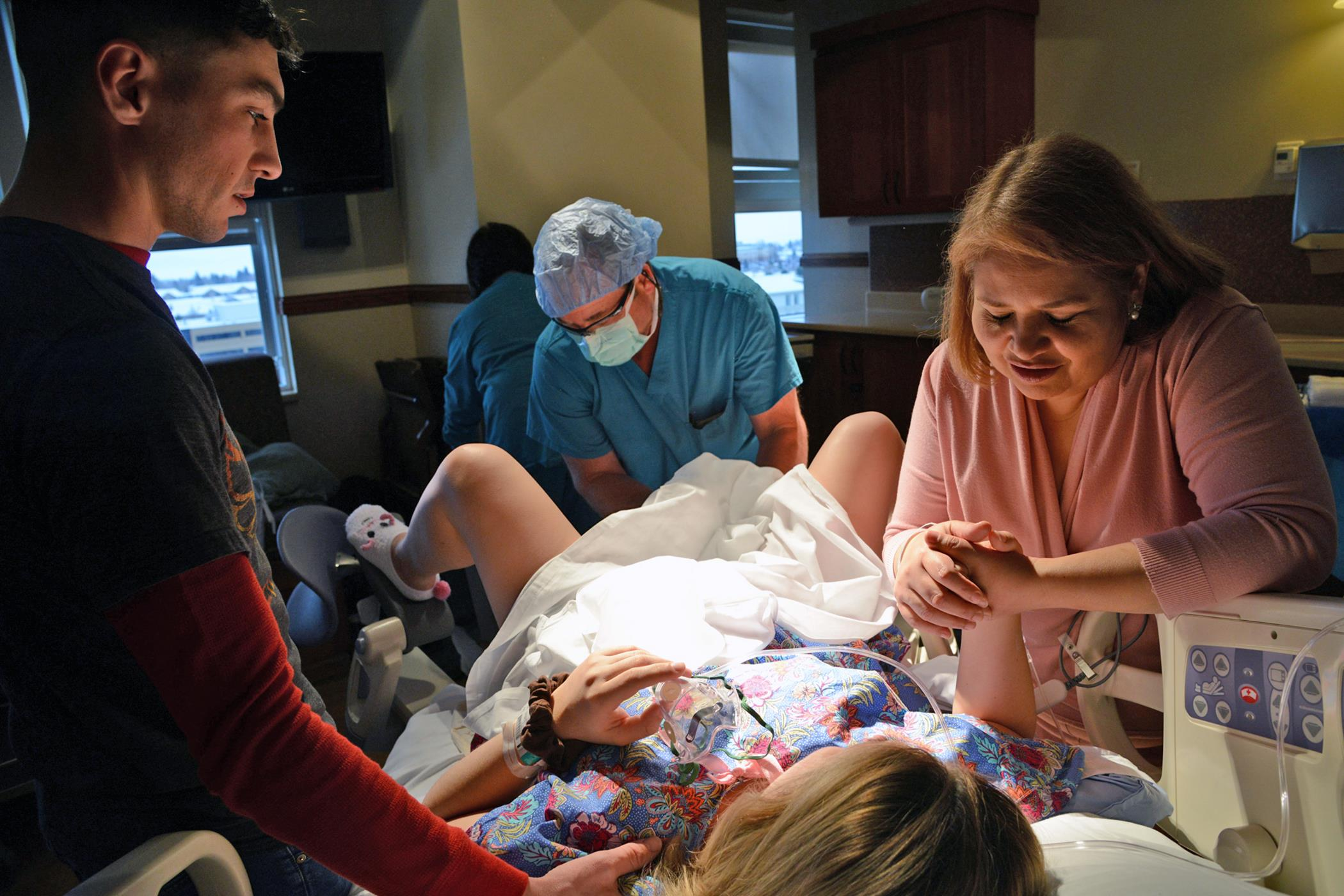 "Staff Sgt. Grace Hoyt, 341st Missile Wing chaplain assistant, prepares to give birth to her surrogate baby with her husband, Austin, and the baby’s mother Gabby by her side Nov. 9, 2017, at Benfis Health System, Great Falls, Mont. Hoyt was a surrogate for Gabby and Rex Baird and delivered their baby with them by her side." (